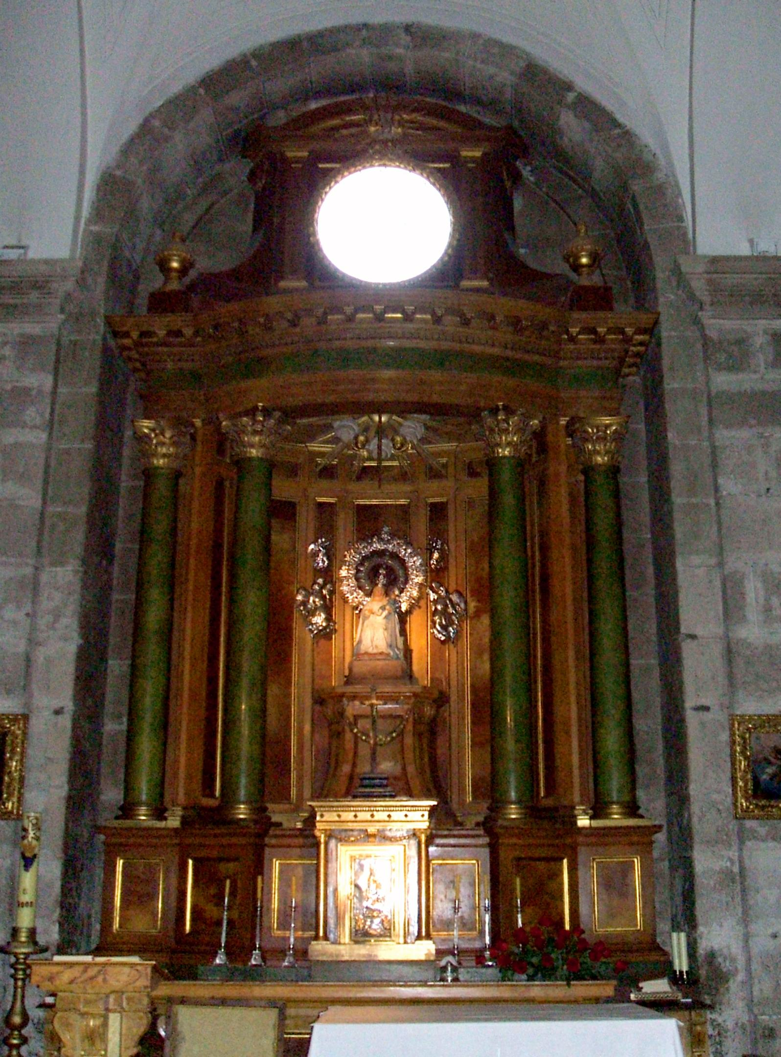 Retablo neoclásico de la Capilla de Nuestra Señora del Sagrario, Catedral de Valladolid (España)